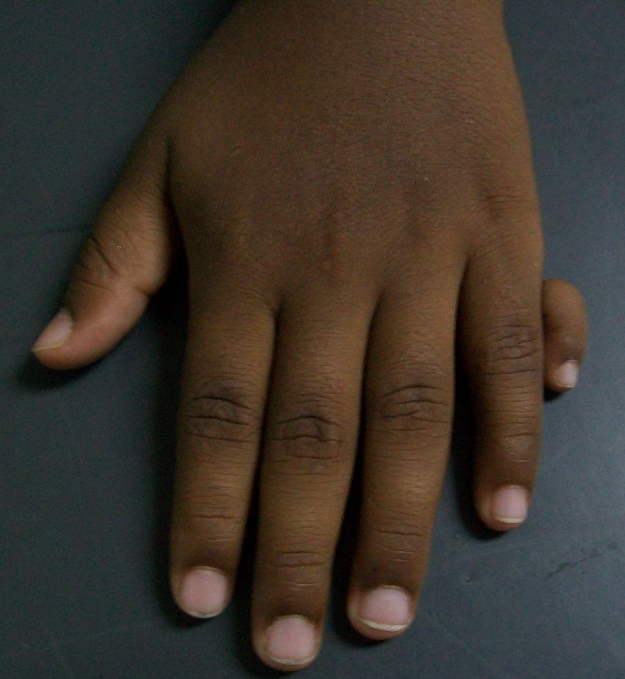 Polydactyly, left hand of a 7 year old boy.